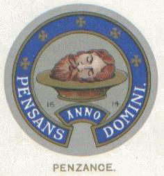 Image taken from traditional image of the common seal of Penzance - Created around 1614. The image has been released for use by Cllr SJ Reed (user:reedgunner) during his Mayoral term of office 2005. The current version is also used by PZ Old Cornwall Society, the Mayor of Penzance, Penzance Bowls Club and the former Borough police force. There are no copyright restrictions on this image as it has been used by the people of Penzance for over 390 years.